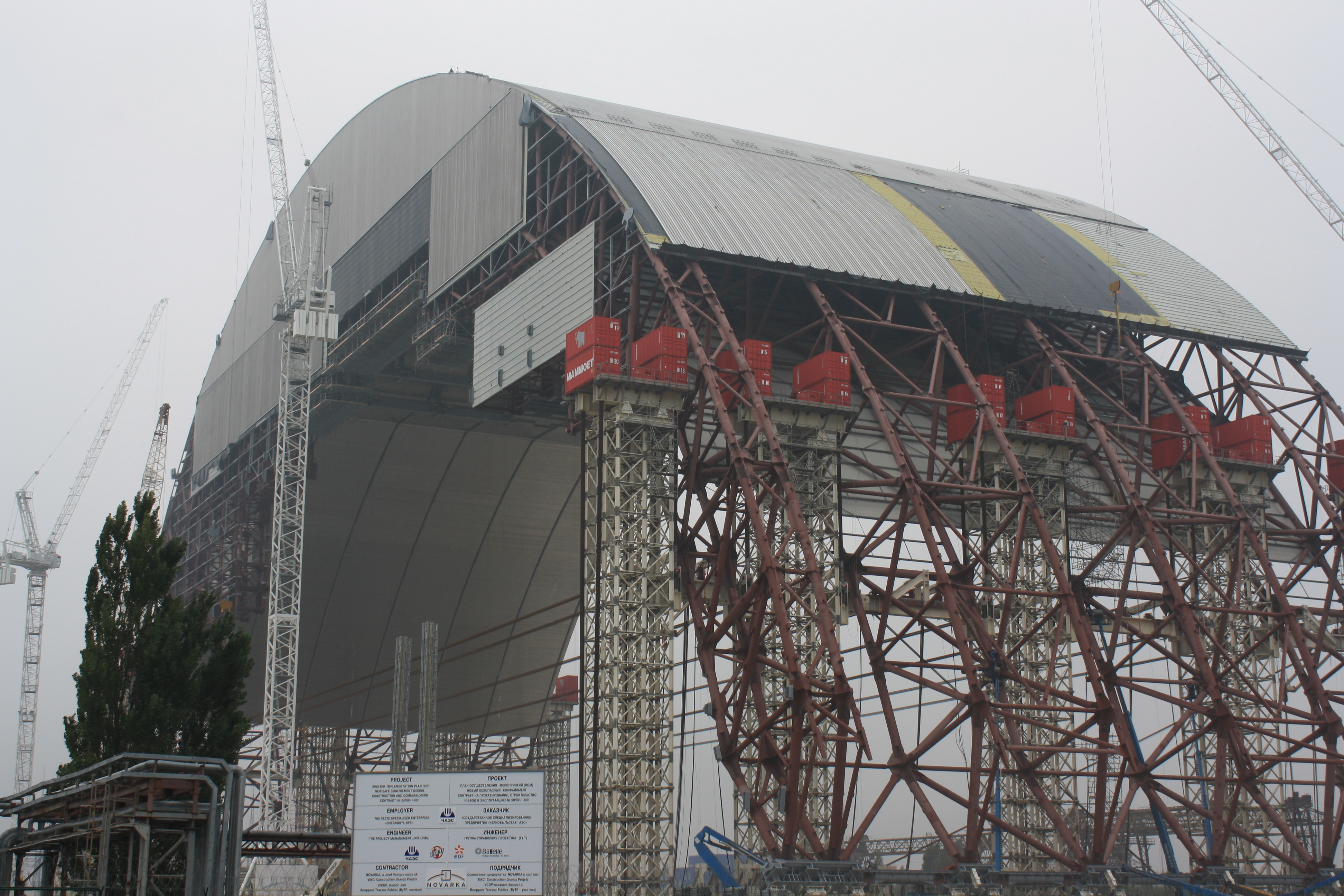 construction of the new sarcophagus in Chernobyl